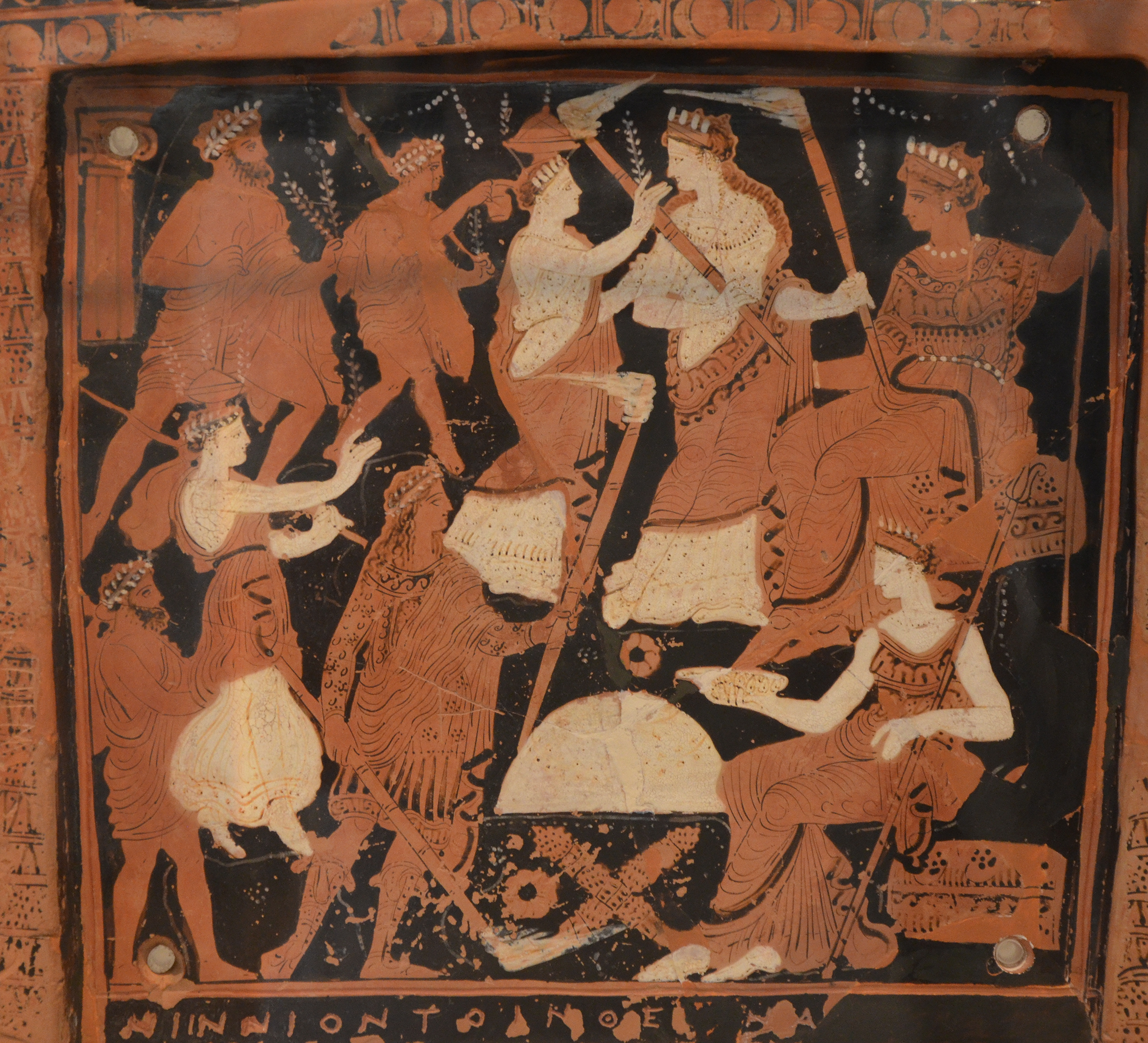 Votive plaque depicting elements of the Eleusinian Mysteries, discovered in the sanctuary at Eleusis (mid-4th century BC)